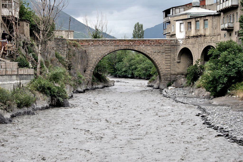 A stone arch bridge and river in Akhty. Republic of Dagestan of southwestern Russia.